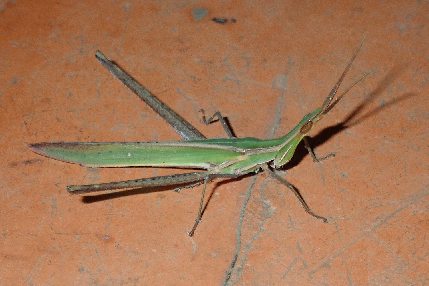 Acrida willemsei, Cat Tien National Park, Vietnam. OLYMPUS DIGITAL CAMERA.